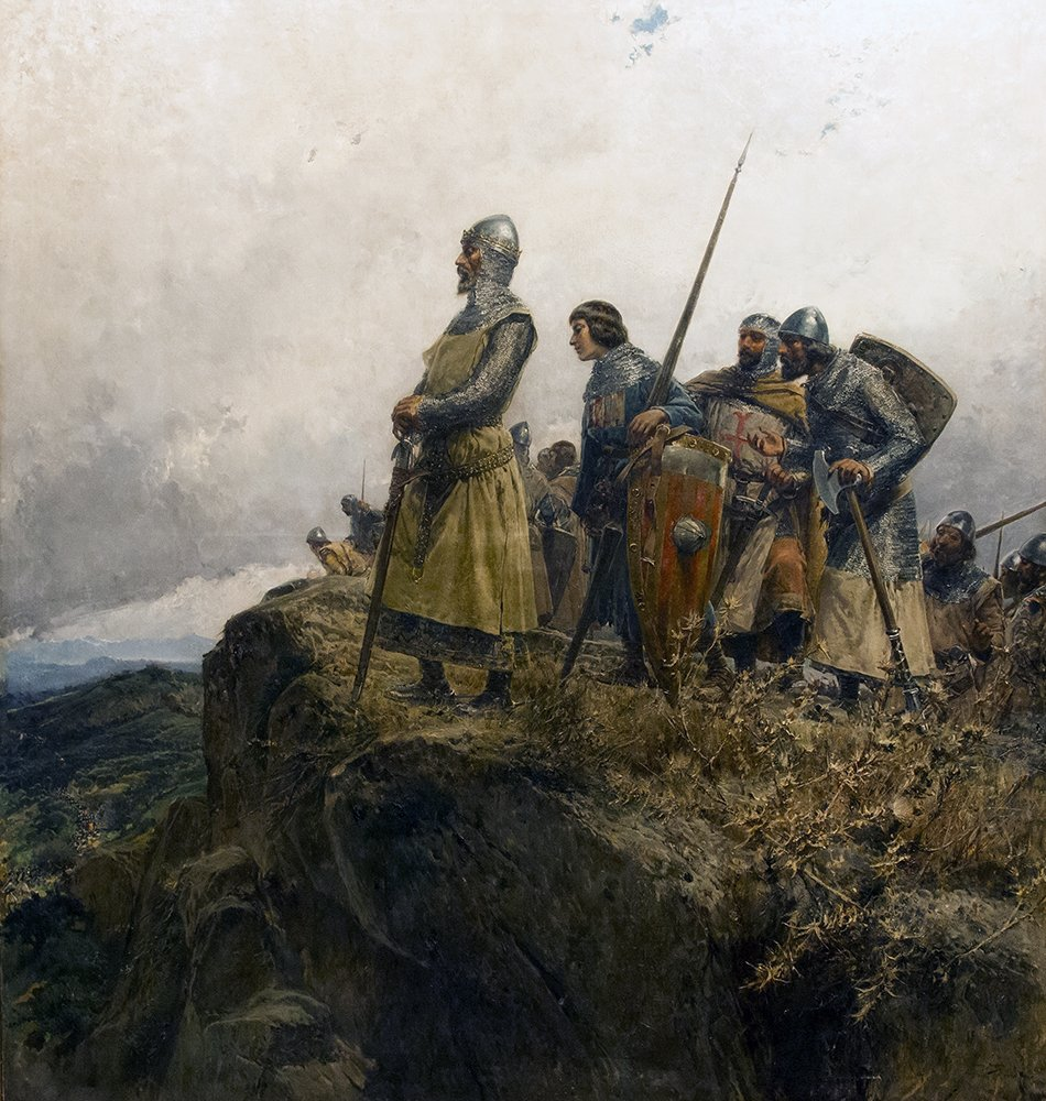 Peter III of Aragon the Great (1240-1285), at the coll de Panissars.